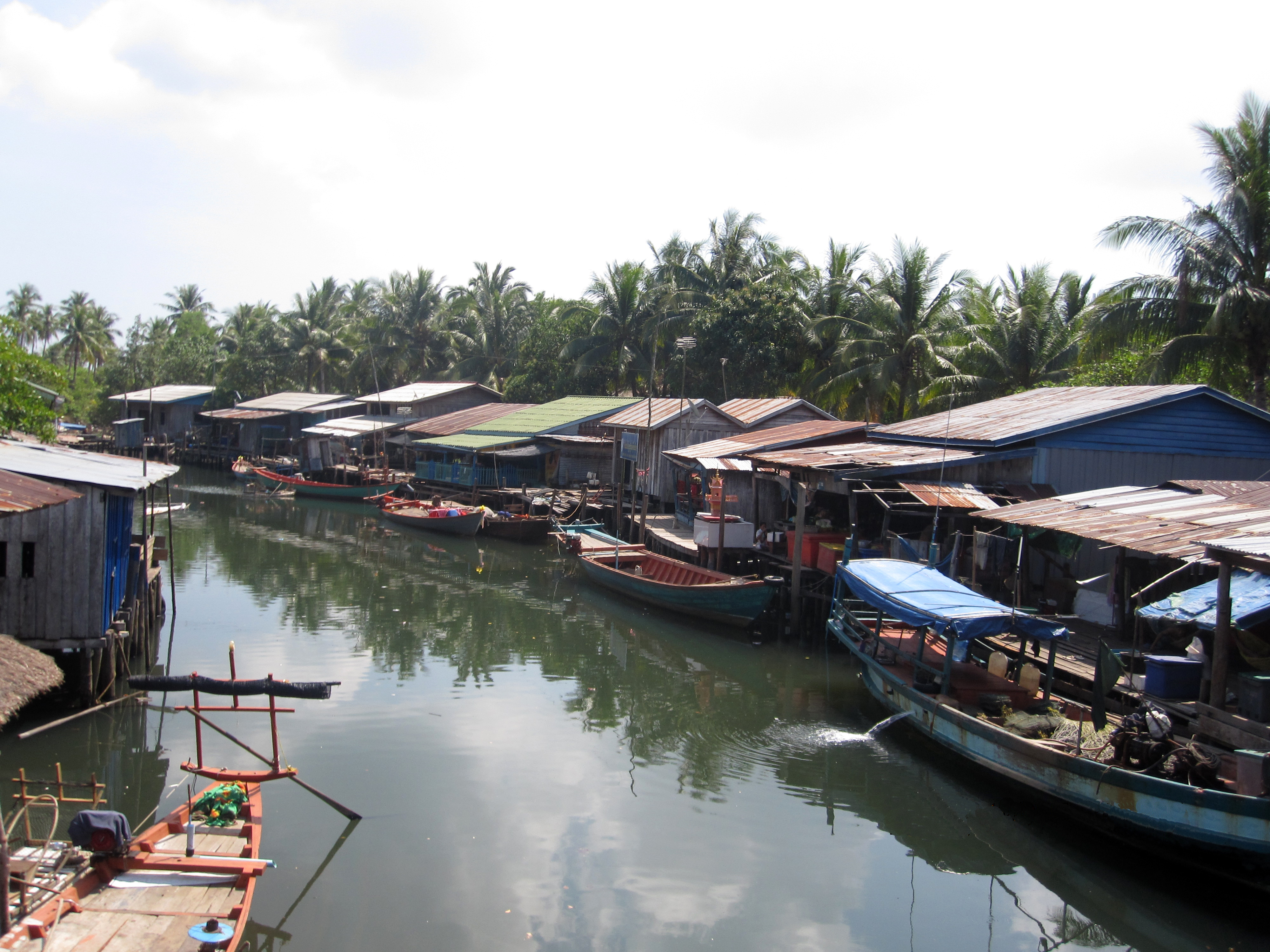 image of Prek Svay Village Koh Rong island, Cambodia